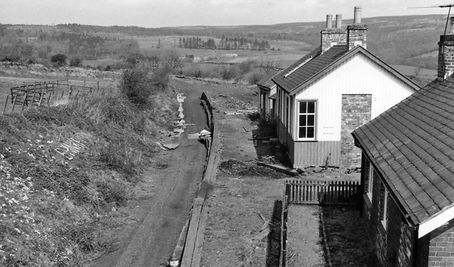 Brinkburn Station (remains). View northward, towards Rothbury; ex-North British Railway branch from Morpeth via Scotsgap. The passenger service ceased on 15/9/52, but goods continued until final closure of the branch on 15/11/63. (It looks as if people may already have been living here in 1965).